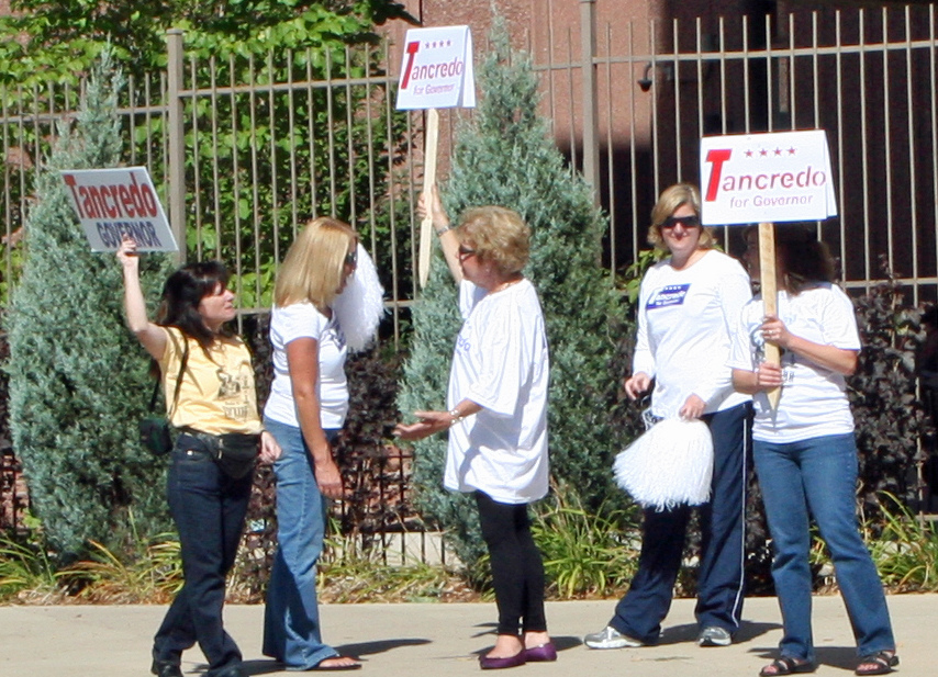 As of 2010-10-10, he's running for governor of Colorado.